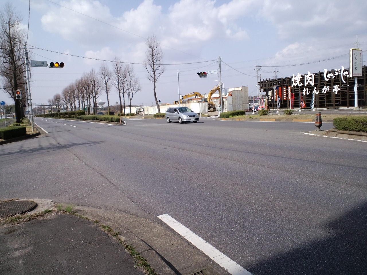 Furuuchi intersection, Tsukuba, Ibaraki, Japan.